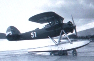 From the book:Петровић, Огњан М. (3/2004.). "Војни аероплани Краљевине СХС/Југославије (Део II: 1931 – 1941.)" (in (Serbian)). Лет - Flight (-{YU}--Београд: Музеј југословенског ваздухопловства) 3: pp 54. ISSN: 1450-684X.